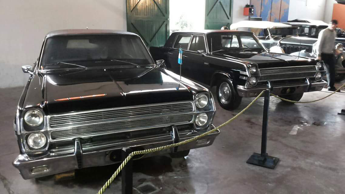 Presidential Rambler Ambassador